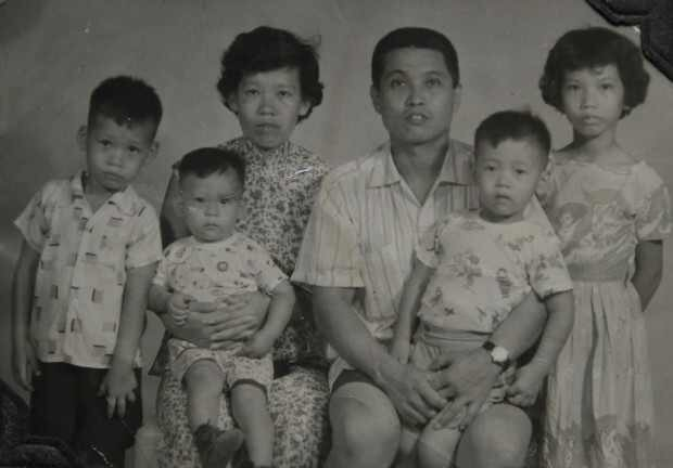 In this undated family photo released Saturday, Nov. 17, 2012, Juan Chiu Trujillo, a Chinese Mexican, third from right, poses with his wife and children.